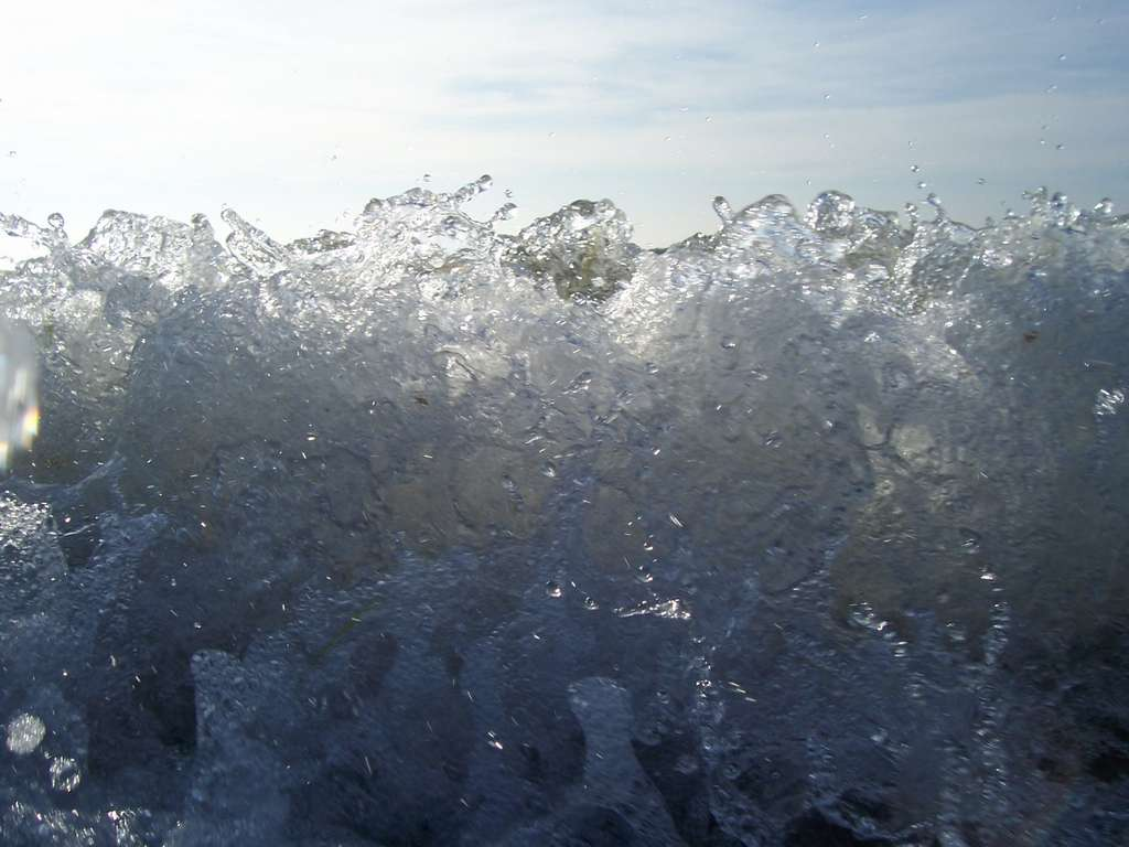 Top of the small wave, Baltic Sea, Mielno, June 2006.